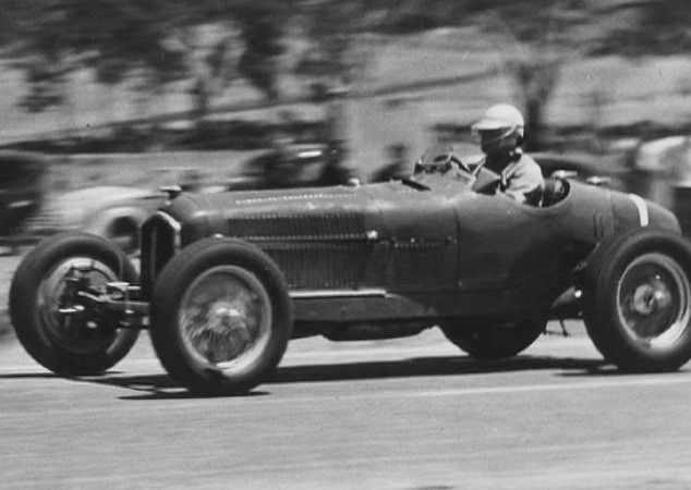 The Alfa Romeo P3 of Jack Saywell at the 1939 Australian Grand Prix, held at the Lobethal Circuit.